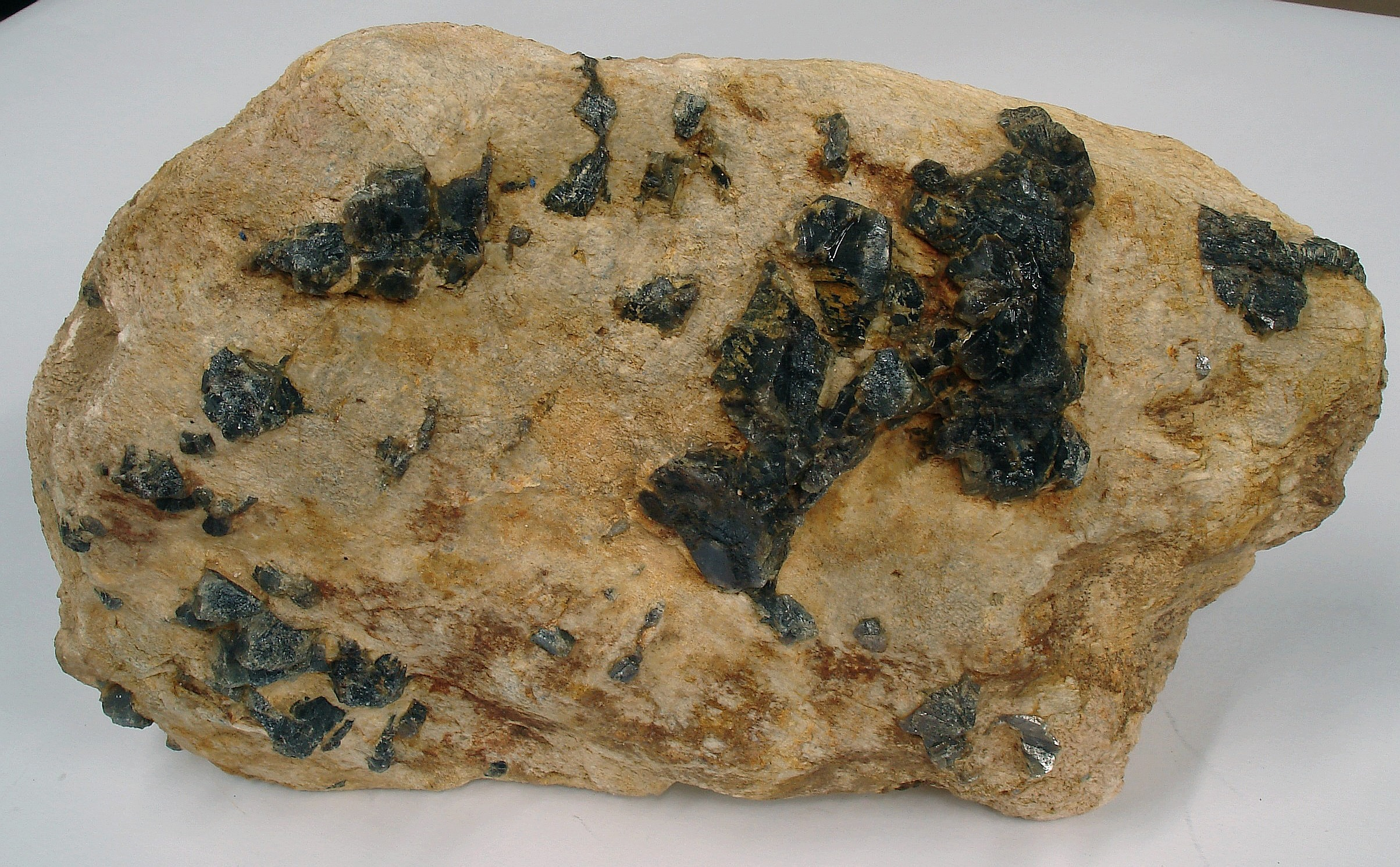 Alkaline pegmatite Description: weathered feldspar and blue corundum crystals. Sample size: 35 x 15 cm. Origin:Canaã alkaline massif, Rio de Janeiro, Brazil Date:24/03/2006 Author:Eurico Zimbres Free for all use